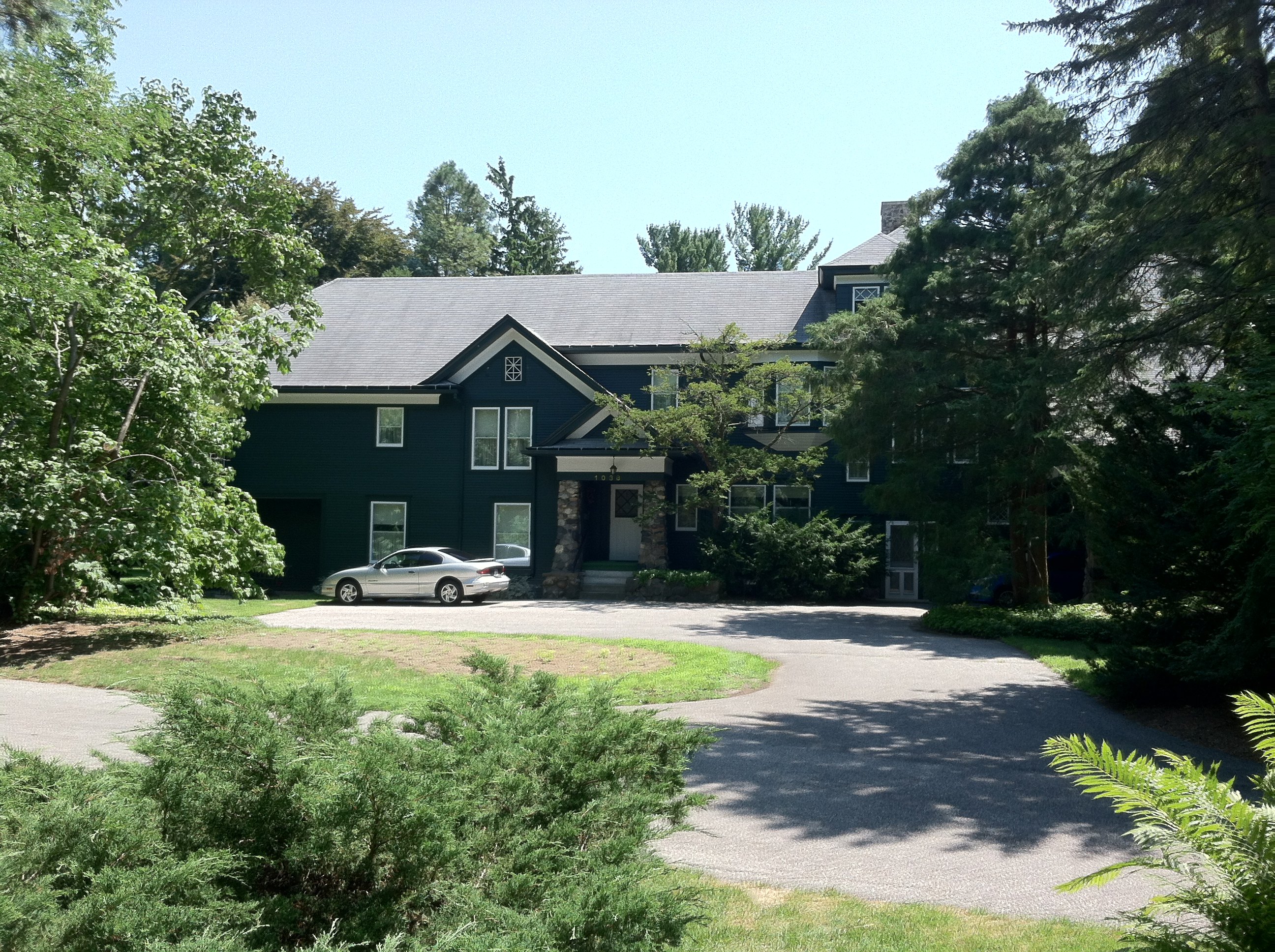 Back side of HH Dow home in Midland, Michigan